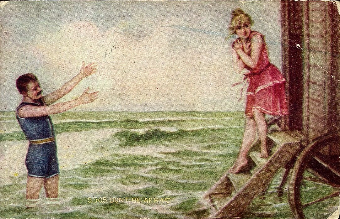 "Don't Be Afraid" - Man and woman in bathing suits with bathing machine, c. 1910 Scanned from period postcard. No listing of publisher, date, nor any assertion of copyright. This card has a US postmark of August, 1912.